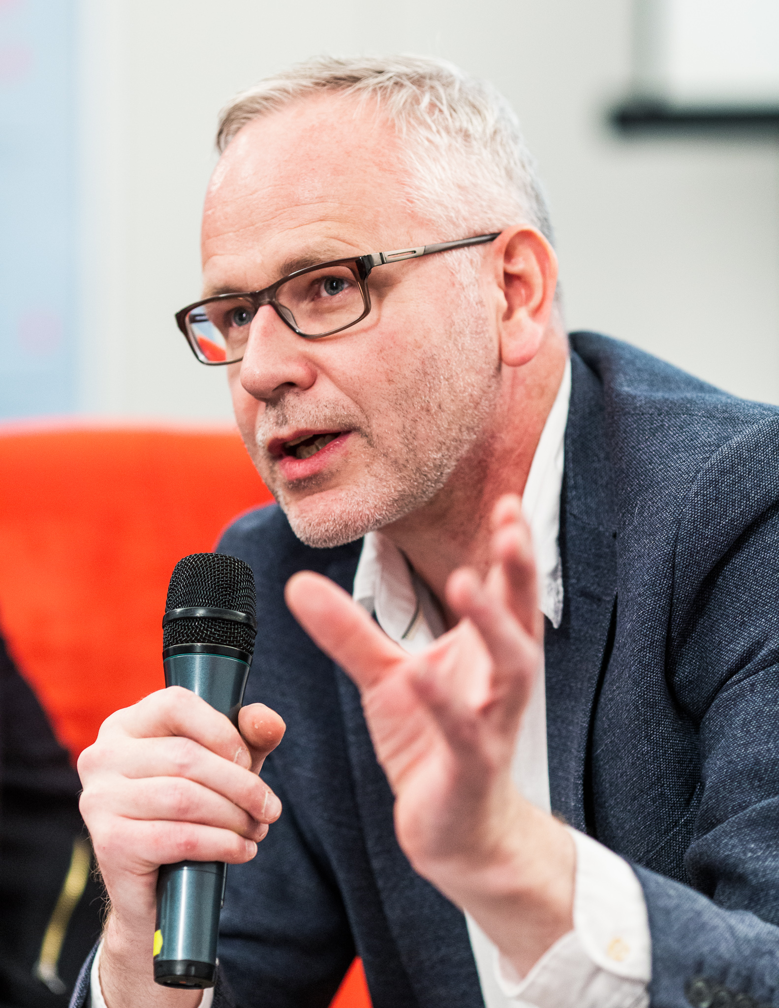 Dariusz Sośnicki, on Authors’ Reading Month 2019, Wrocław, Poland